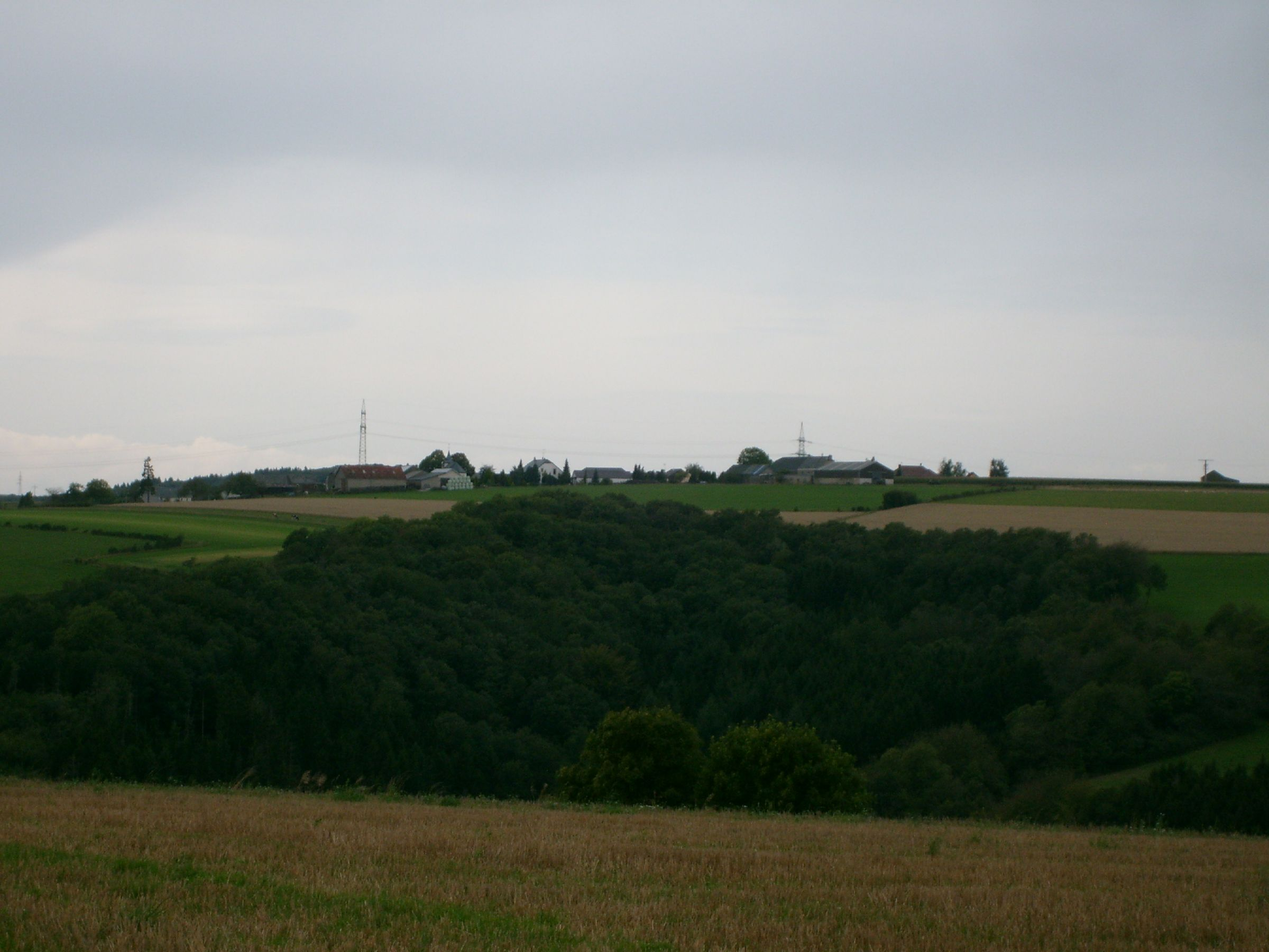 Landscheid, Luxembourg. View from south-east, hill named Millebierg.